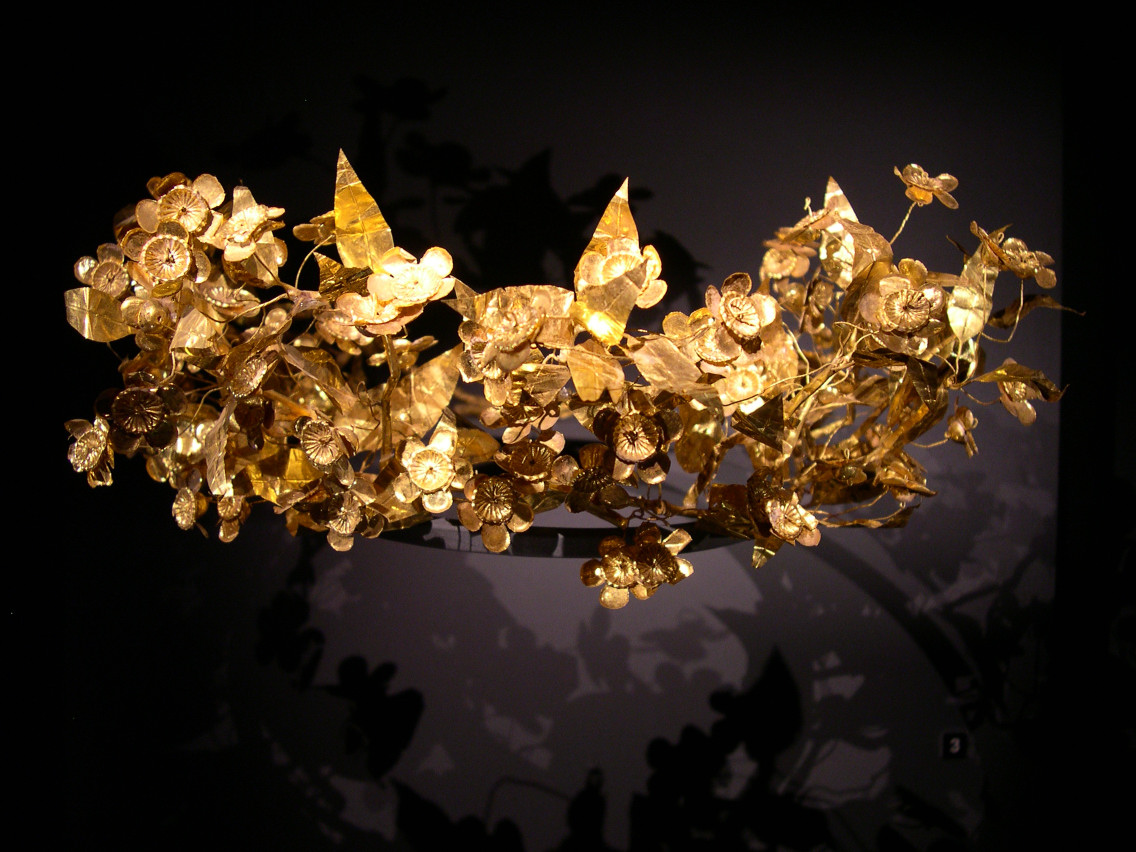 Golden leaf crown of ancient Macedonian origin shown in the Archeological Museum of Thessaloniki, Greece.